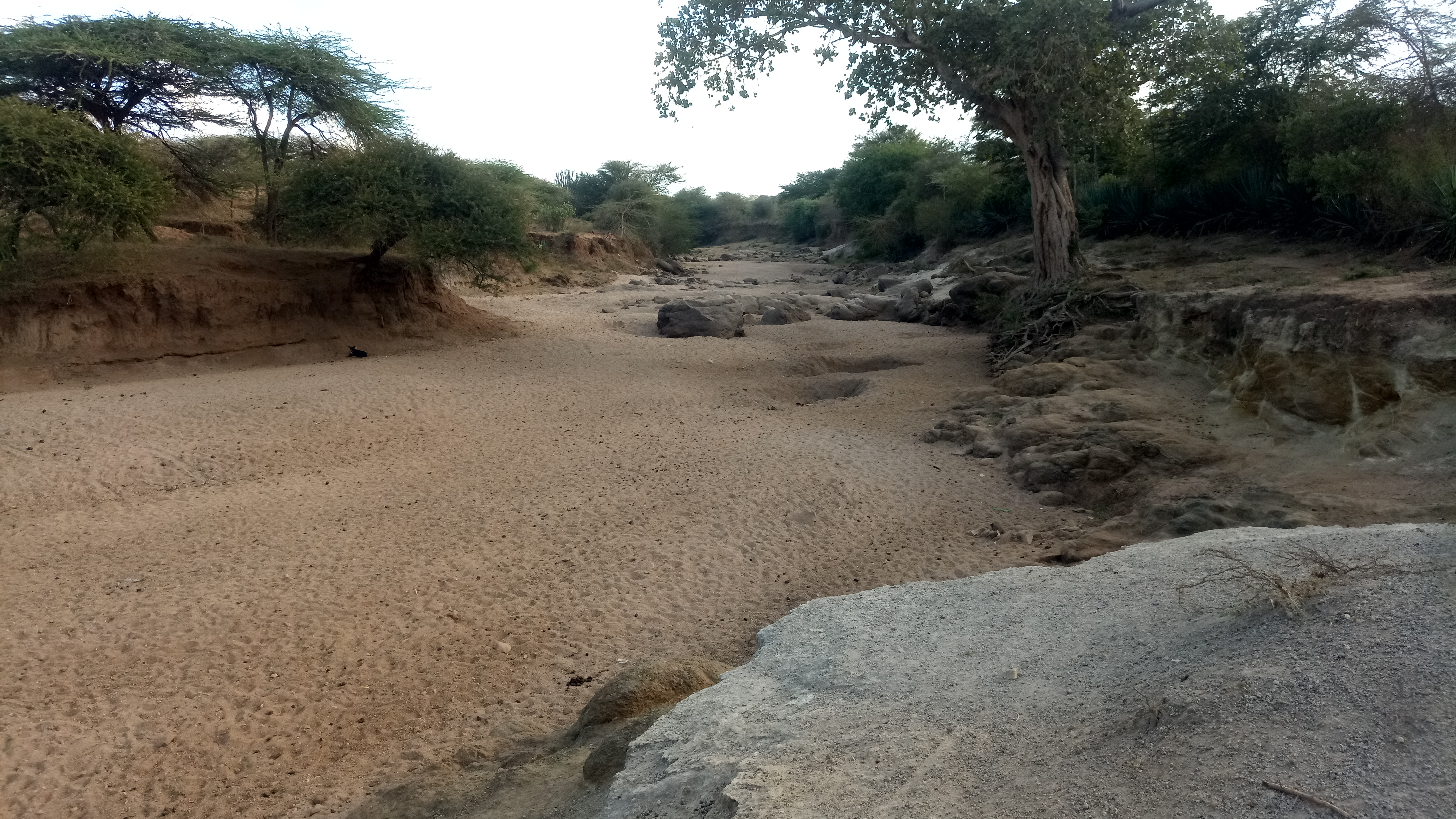 This is an image with the theme "Play" from: Kenya